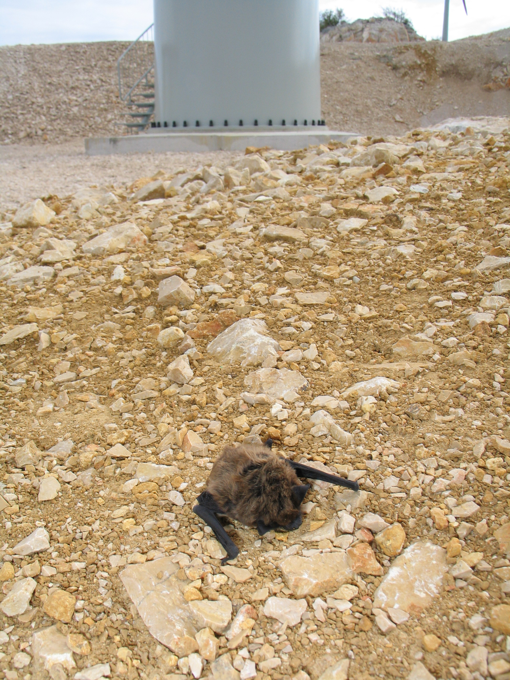 Savi's Pipistrelle, Hypsugo savii, bat killed by collision with wind turbine of the "Vjetroelektrana Trtar-Krtolin" wind farm near Šibenik, Croatia